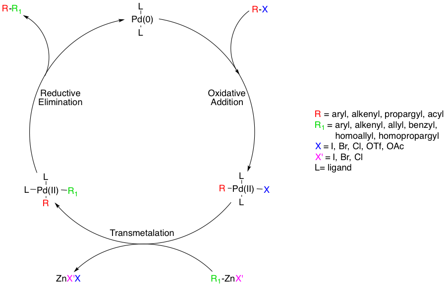 catalytic cycle for negishi reaction